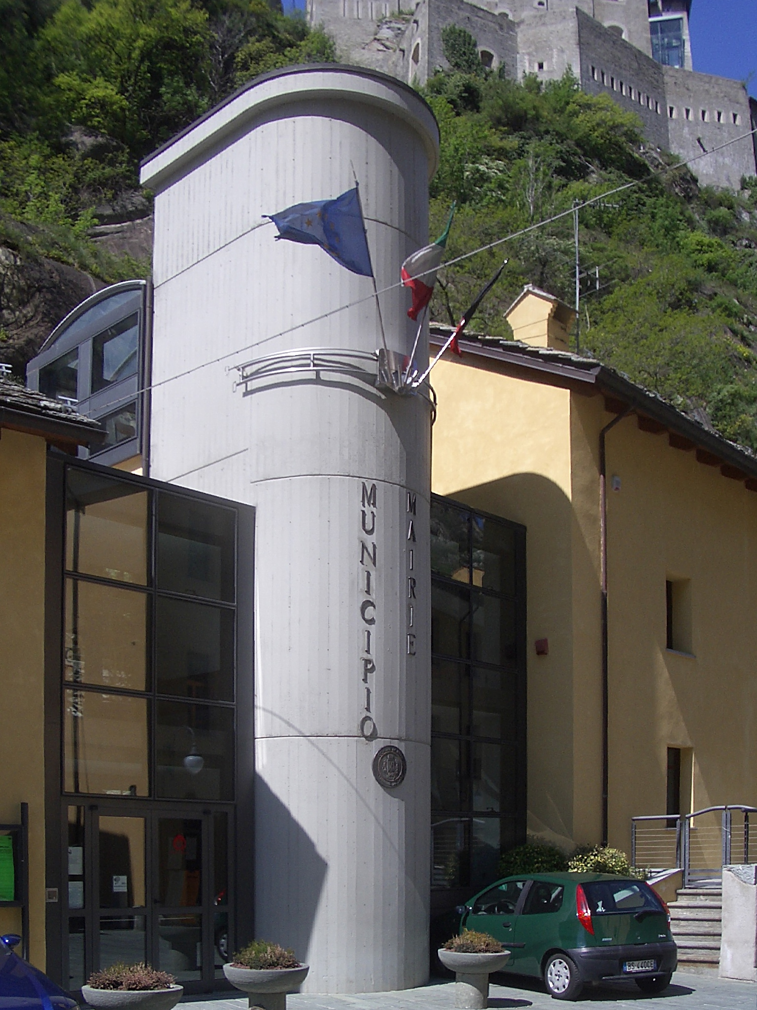 Bard, (Aosta Valley region), the town hall